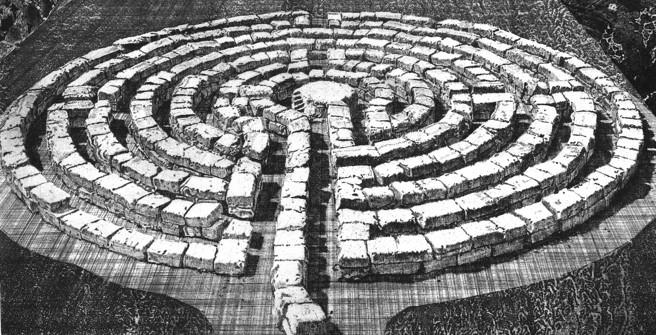 Labyrinth 28, etching, aquatint, soft-ground etching, mm.180x330, Engraved and designed by Toni Pecoraro 2007.